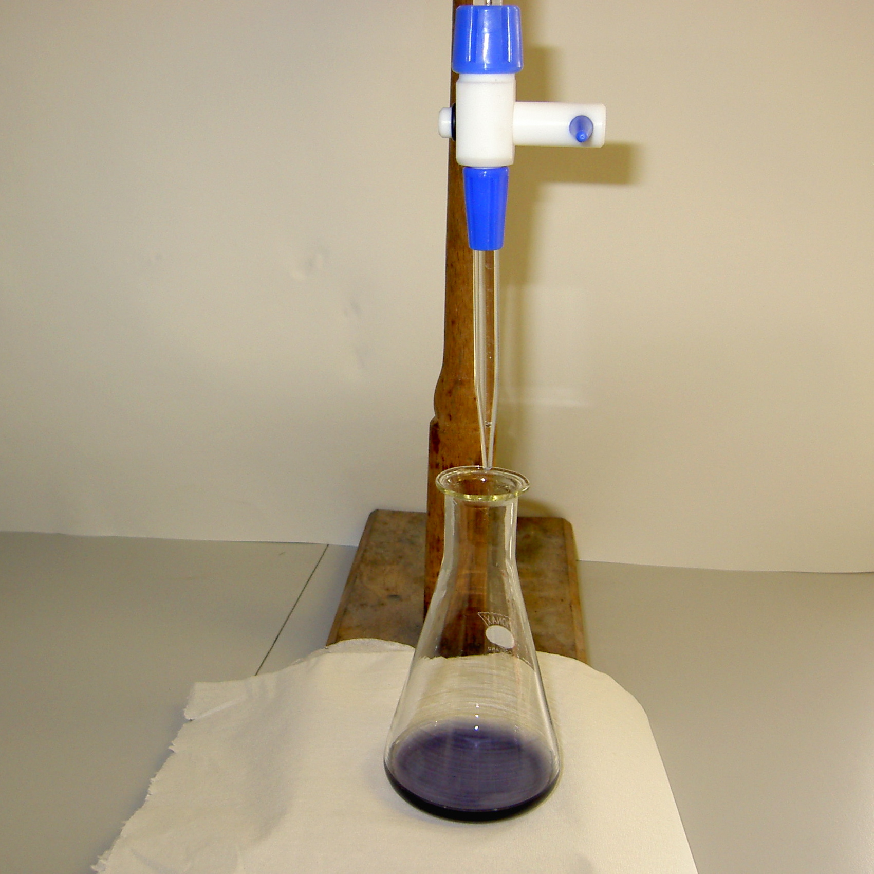 Photograph by Will Woodgate (Cornwall College, UK) Subsample stood under the burette prior to titration.